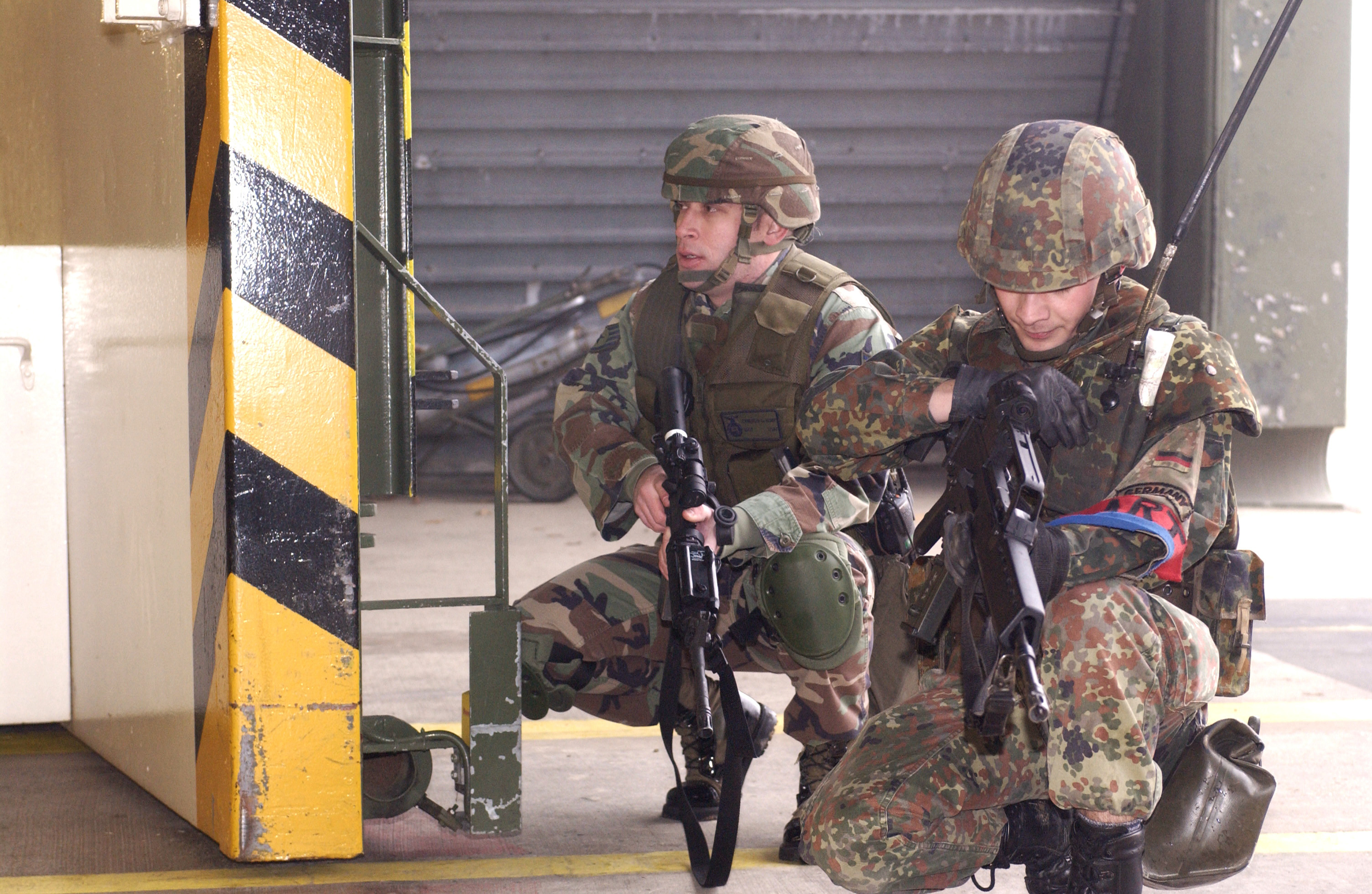 Staff Sergeant Cameron Kemp, 702nd Munitions Support Squadron Security Forces Operations, Büchel Air Base, Germany, covers a German air force member while he simulates firing into a protected aircraft shelter. The Airmen are working together to recapture the PAS which has been overtaken by terrorists in an exercise.